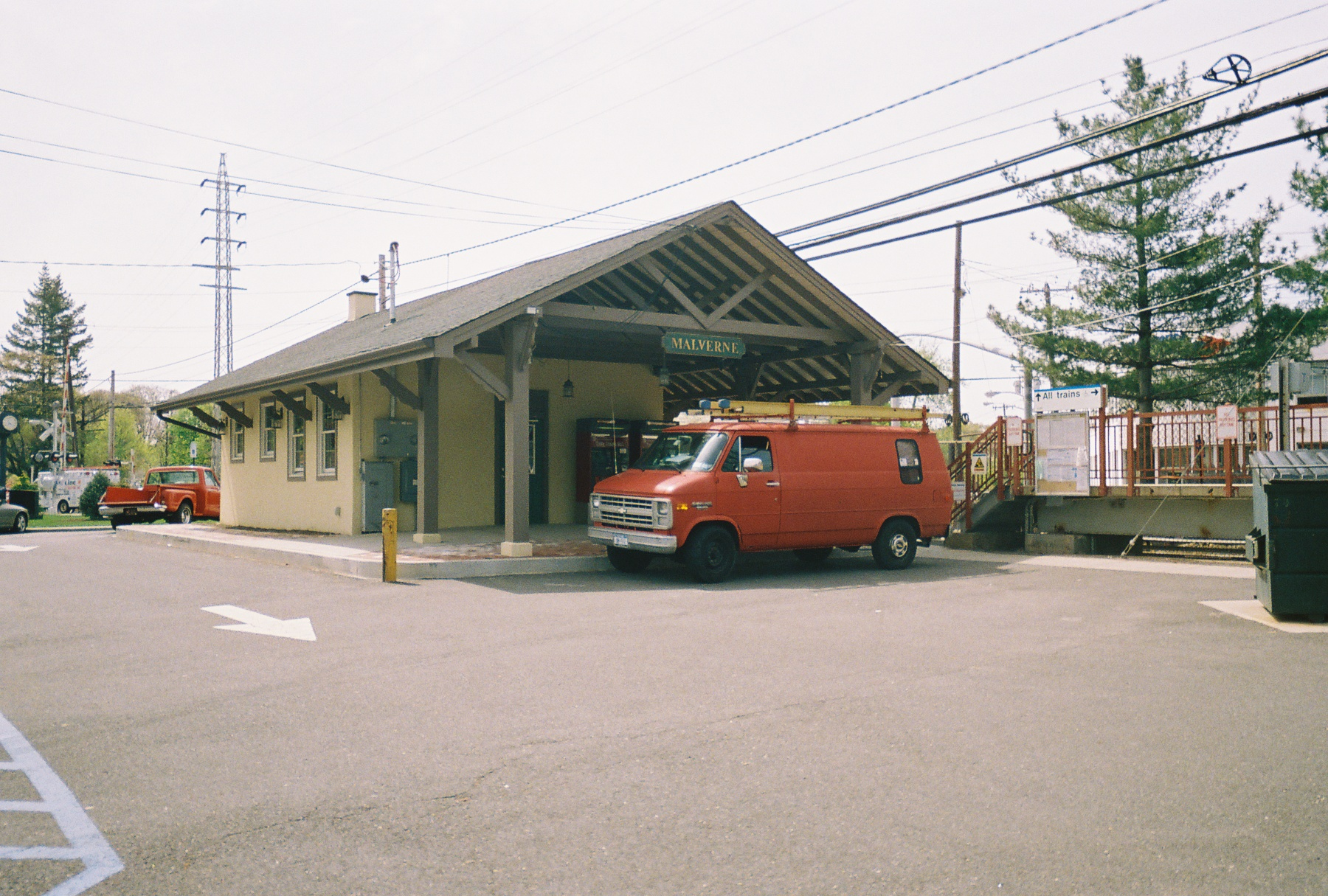 The parking lot of the historic Malverne (LIRR station), one of the few stations on the West Hempstead Branch of the Long Island Rail Road to have existing station houses.